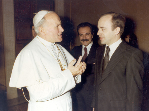 Dr. Hans Koechler, right, being received by Pope John Paul II in the Vatican, 26 February 1979